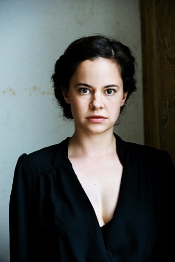 German actress Karolina Horster